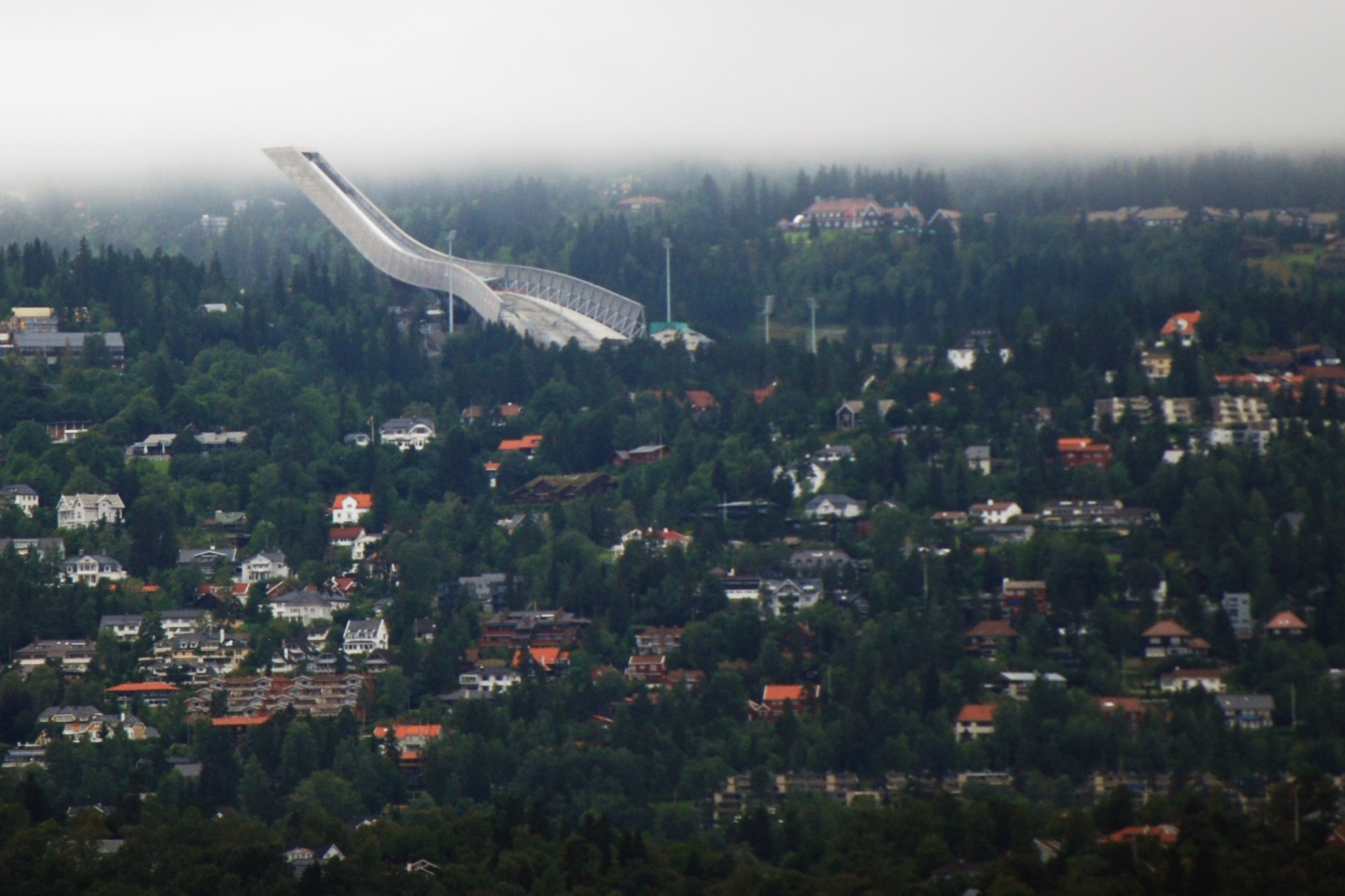 Olympic Ski Jump